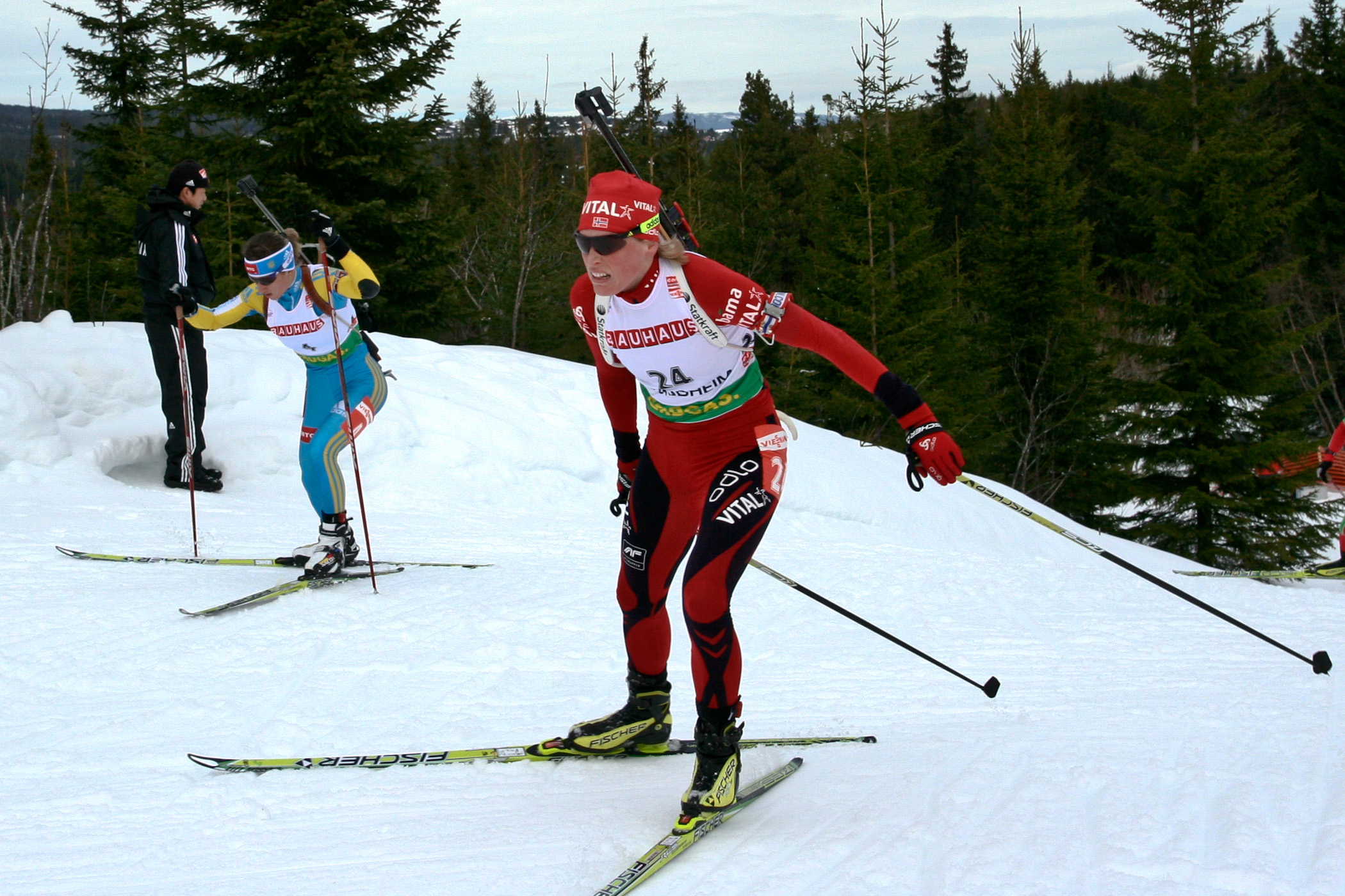 Tora Berger at the IBU World Cup Biathlom Trondheim 19 March 2009. The license on this photo was changed on 18 February 2010 from All rights reserved to Creative Commons (CC-BY-SA). At the same time, a bigger version (2100x1400px) of the photo replaced the old one. If you use this picture, remember to give credit according to the license (